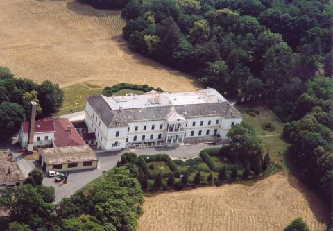 Doba, Hungary, aerial photogrpahy (Erdődy Mansion)